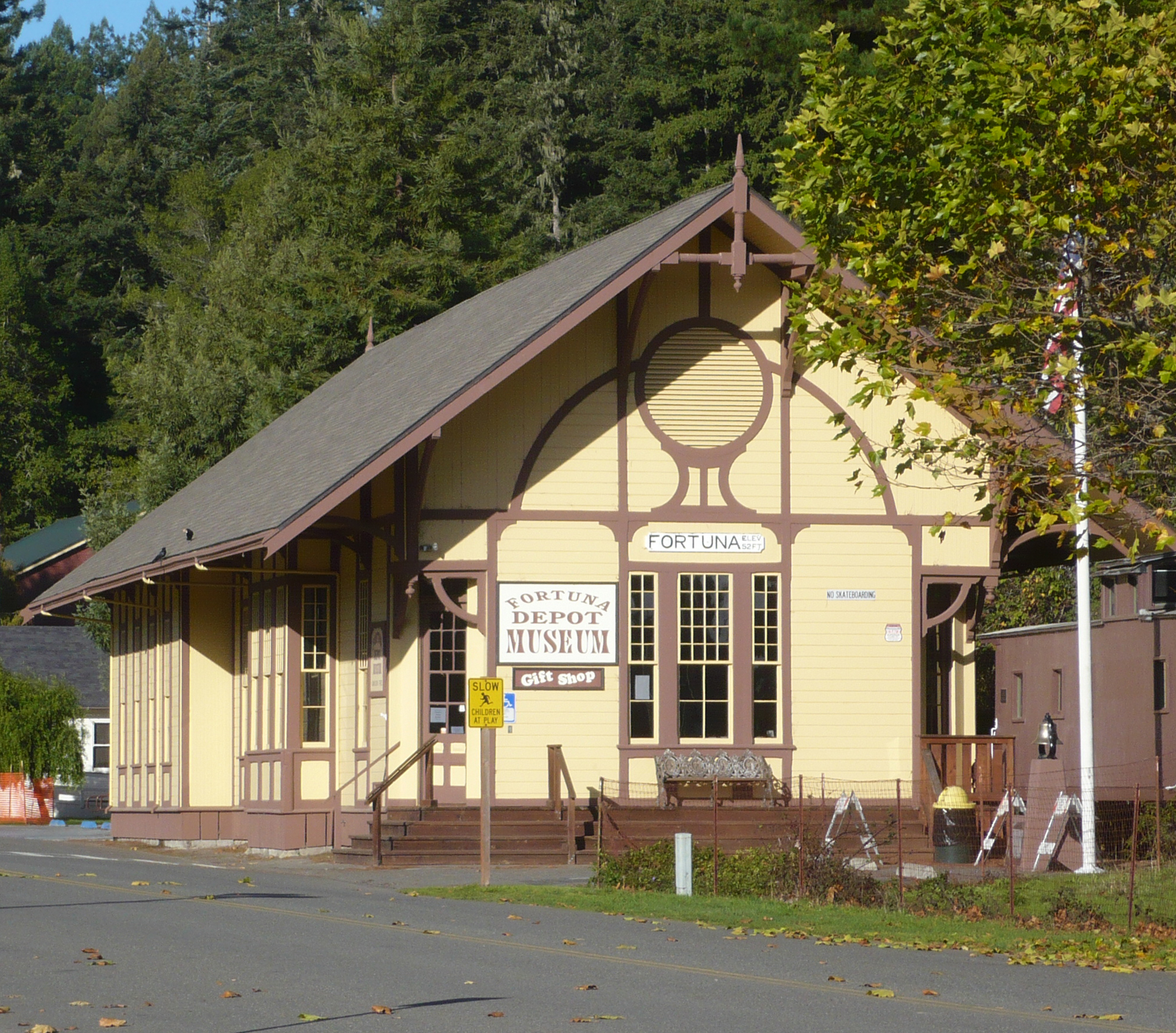 The former Northwestern Pacific Railroad depot building from 1893 to 1965 is now the Fortuna Depot Museum. The bell in the foreground commemorates the loss of and engineer, fireman and brakeman who died at Scotia Bluff while working for the railroad 17 January 1953